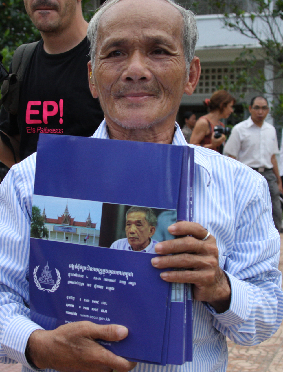 Bou Meng after having received a copy of the Duch-verdict on 12 Aug 2010. He is one of only a handful survivors from the secret Khmer Rouge prison S21 where at least 12,273 people were tortured and executed. ECCC Public Affairs Section has started the job of distributing 10,000 copies of the Duch-verdict (450 pages) and 17,000 copies of the summary (36 pages). These documents will available in all 1,621 communes in Cambodia as well as in libraries, schools and other public institutions. Kaing Guek Eav alias Duch was found guilty of crimes against humanity and war crimes and sentenced to 35 years of imprisonment on 26 July 2010. He is the first person to stand trial before the Extraordinary Chambers in the Courts of Cambodia, more commonly referred to as the Khmer Rouge tribunal. Fore